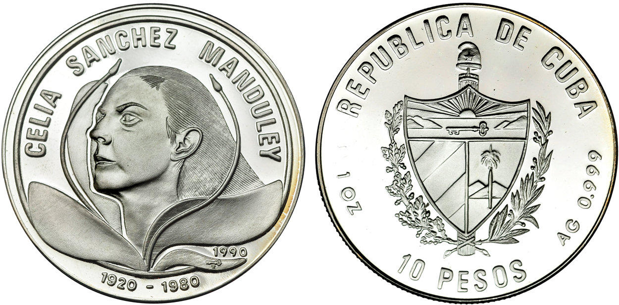 Symbol of Celia's contributions as a Cuban Revolutionary.